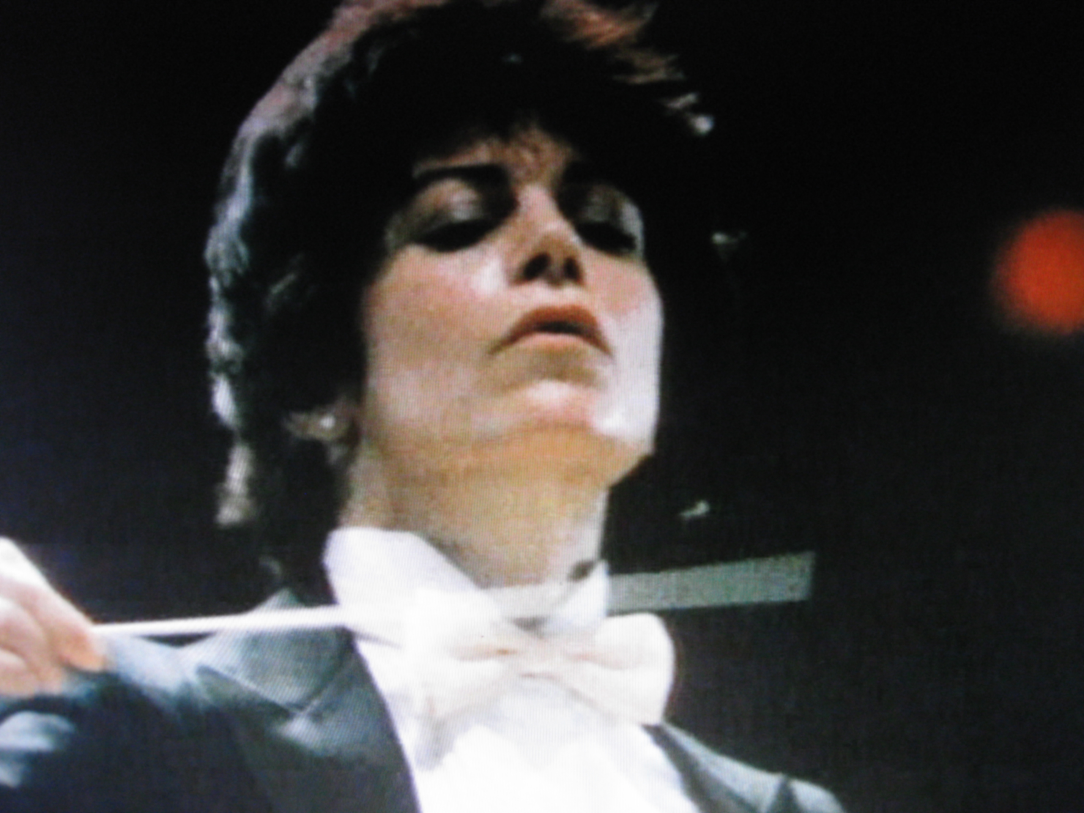 JoAnn Falletta conducting the Queens Philharmonic Orchestra playing Stravinsky's The Rite of Spring.